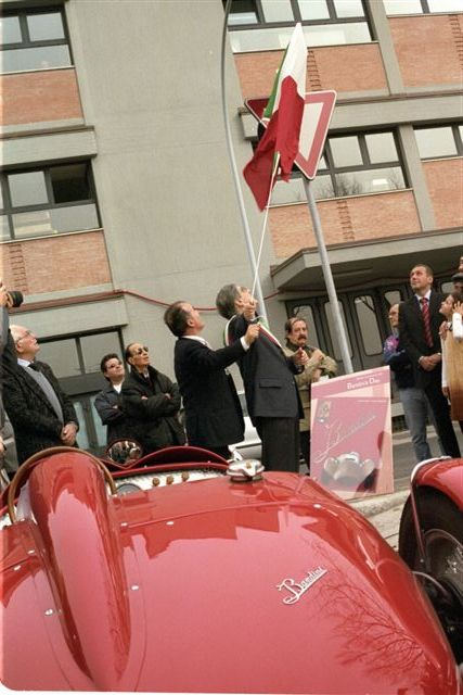 The major in Bandini square Forlì, 2002, November